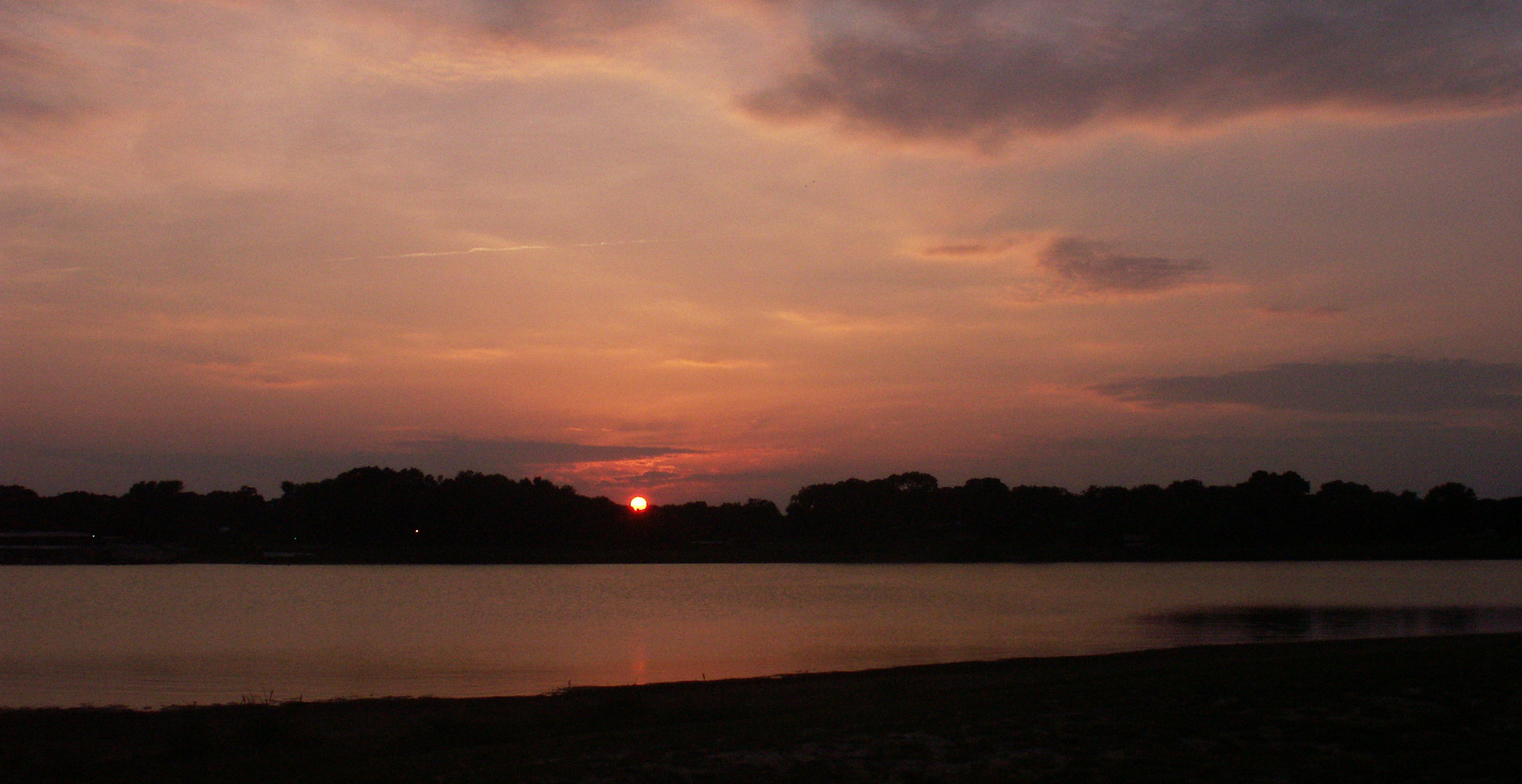 Sunset over Duck Cove, Lake Tawakoni, Texas, 2014-07-30.